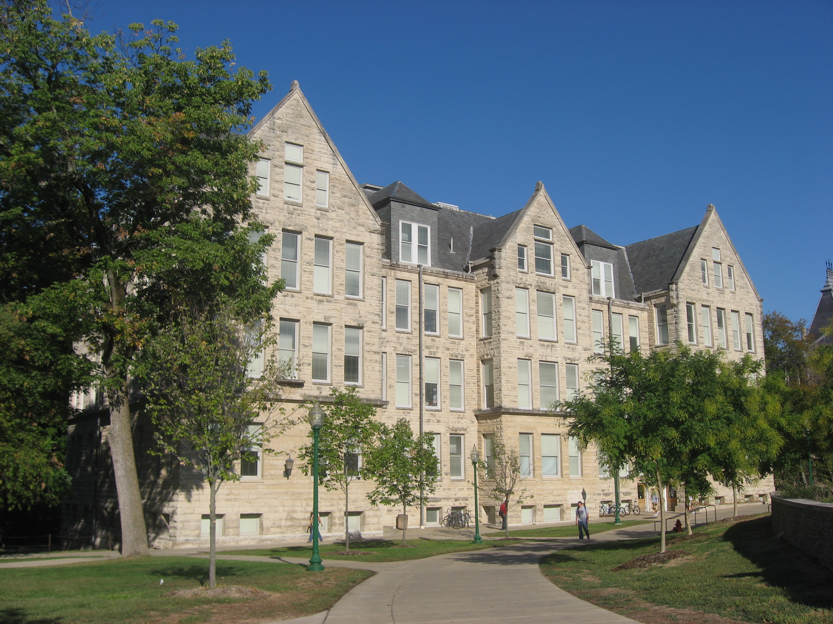 Rear and southern end of Lindley Hall on the campus of Indiana University in Bloomington, Indiana, United States. Built in 1902, it is part of The Old Crescent, a group of the oldest buildings on the university's campus that is listed on the National Register of Historic Places.